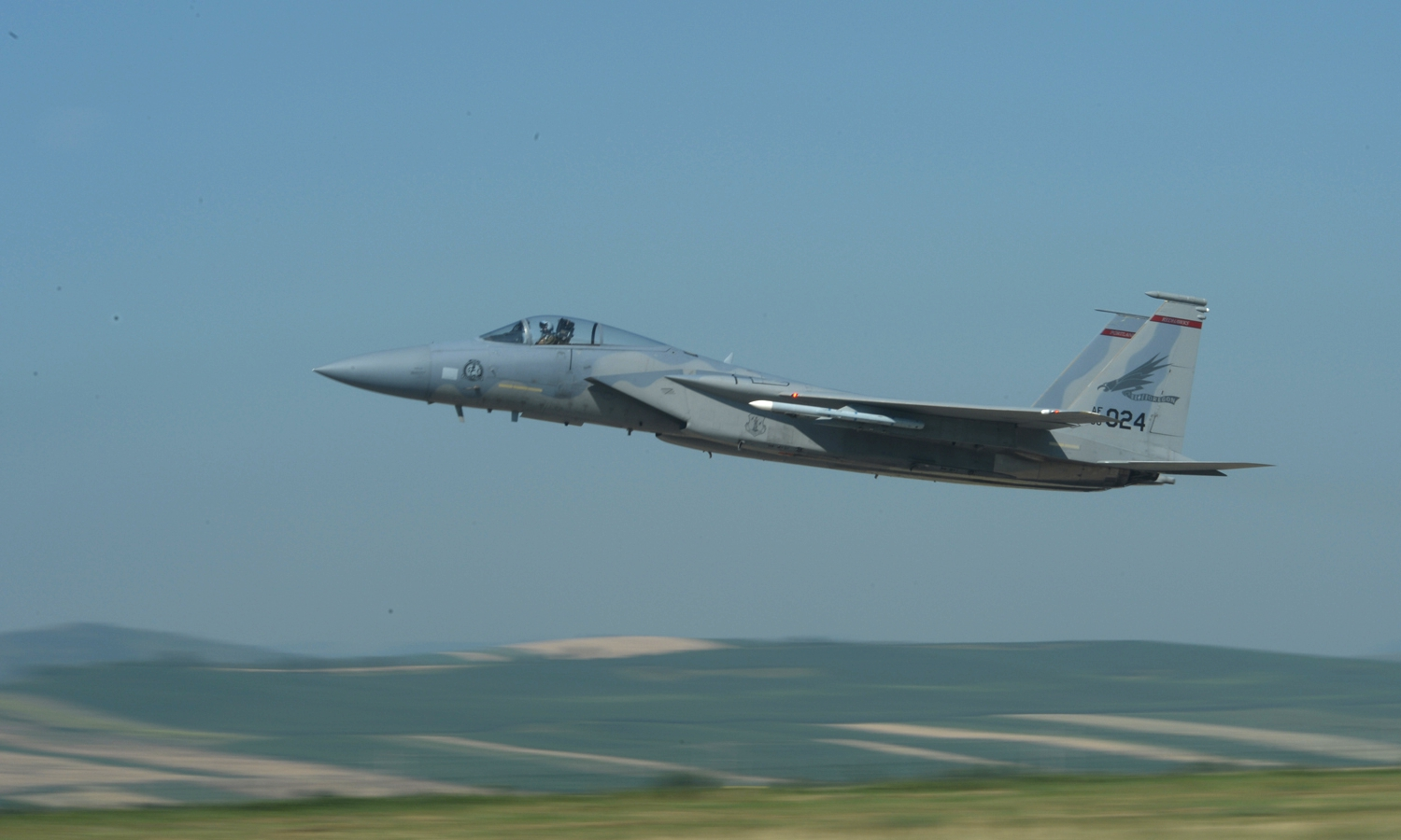 A U.S. Air Force Oregon Air National Guard McDonnell Douglas F-15C-28-MC Eagle (s/n 80-0024) assigned to the 123rd Expeditionary Fighter Squadron takes off from the runway at Campia Turzii, Romania, on 6 July 2015. Twelve F-15Cs were deployed to Romania as part of a European theater security package.